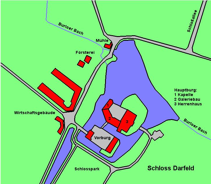 Plan of Darfeld castle